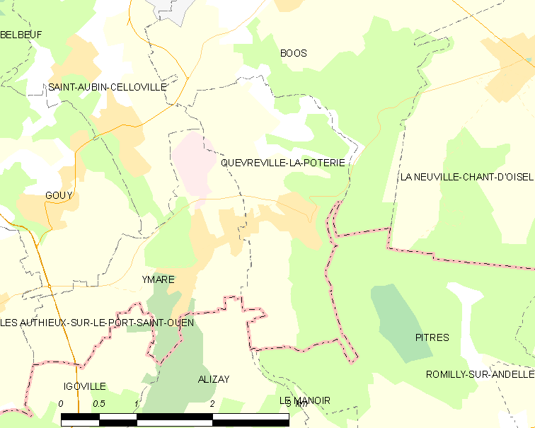 Map of French municipality Quévreville-la-Poterie